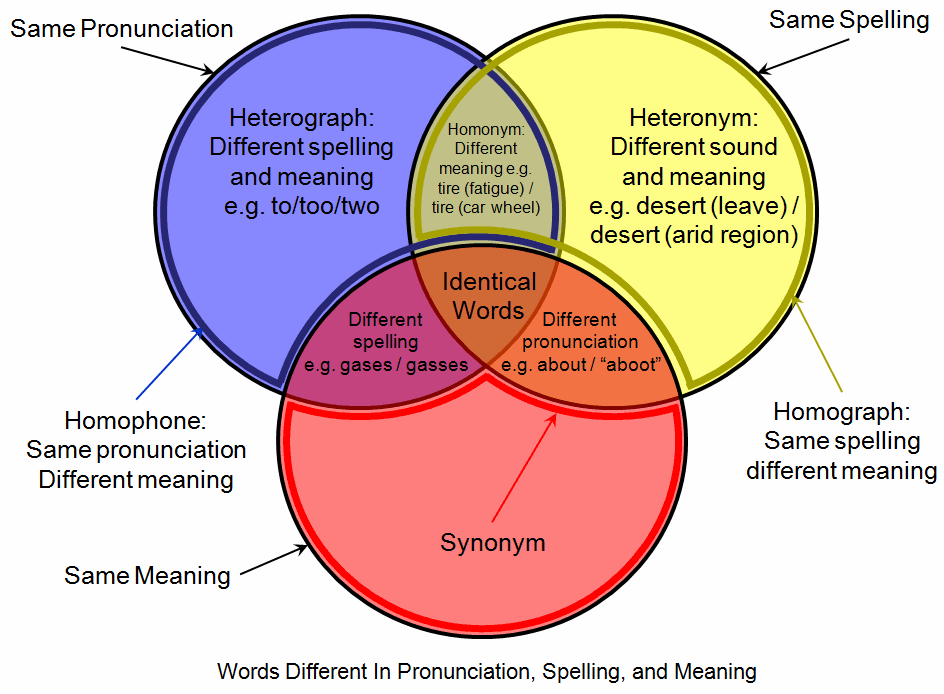 This is a Venn diagram showing the relationships between pronunciation, spelling, and meaning of words, for example, homographs, homonyms, homophones, heteronyms, and heterographs.